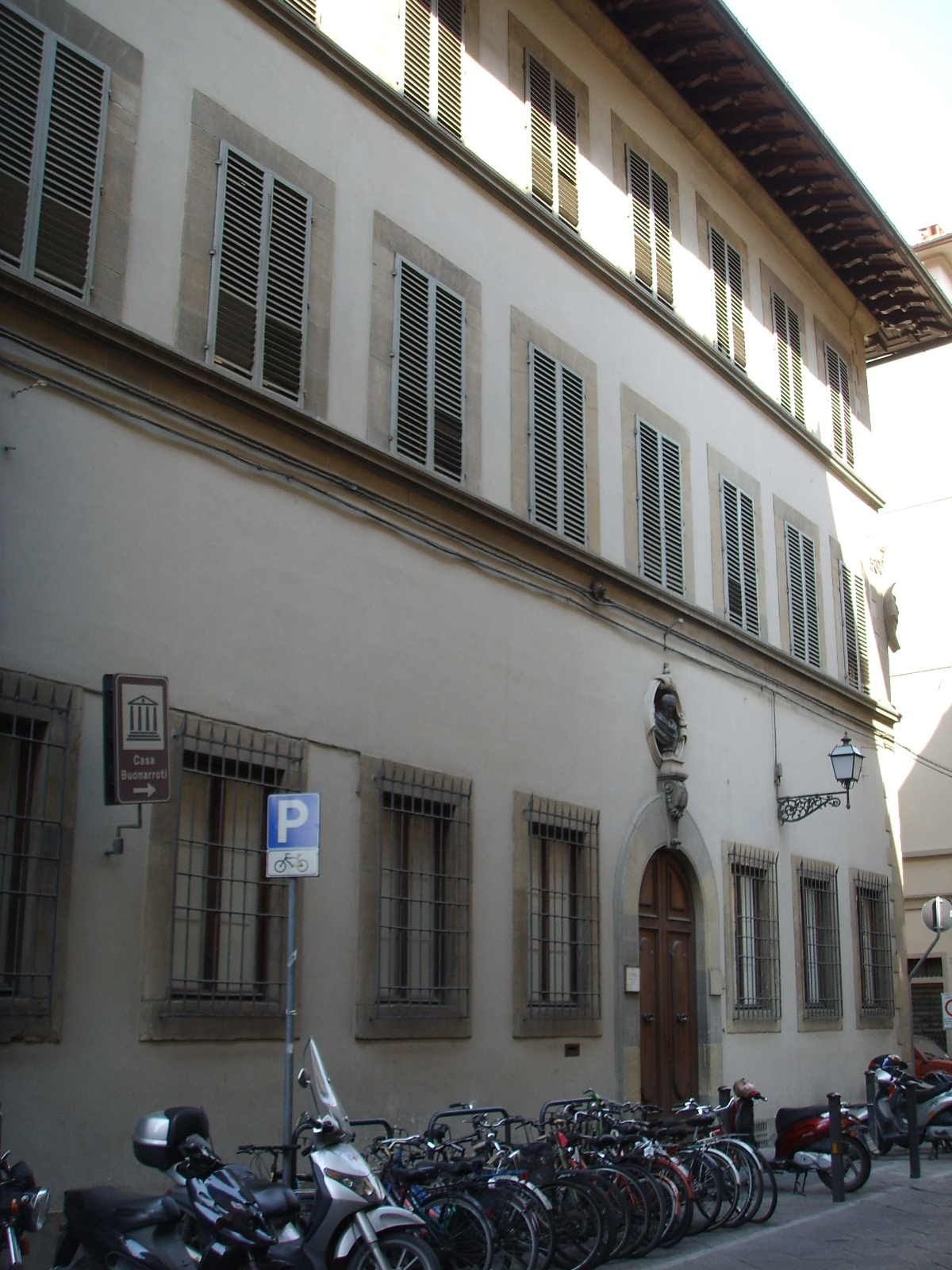 Casa Buonarroti in Florence is a museum, housed in the building Michelangelo Buonarroti built for himself and his relatives, lgater transformed by his nephew Michelangelo Buonarroti the Younger into a museum-sacrarium for his famous uncle.